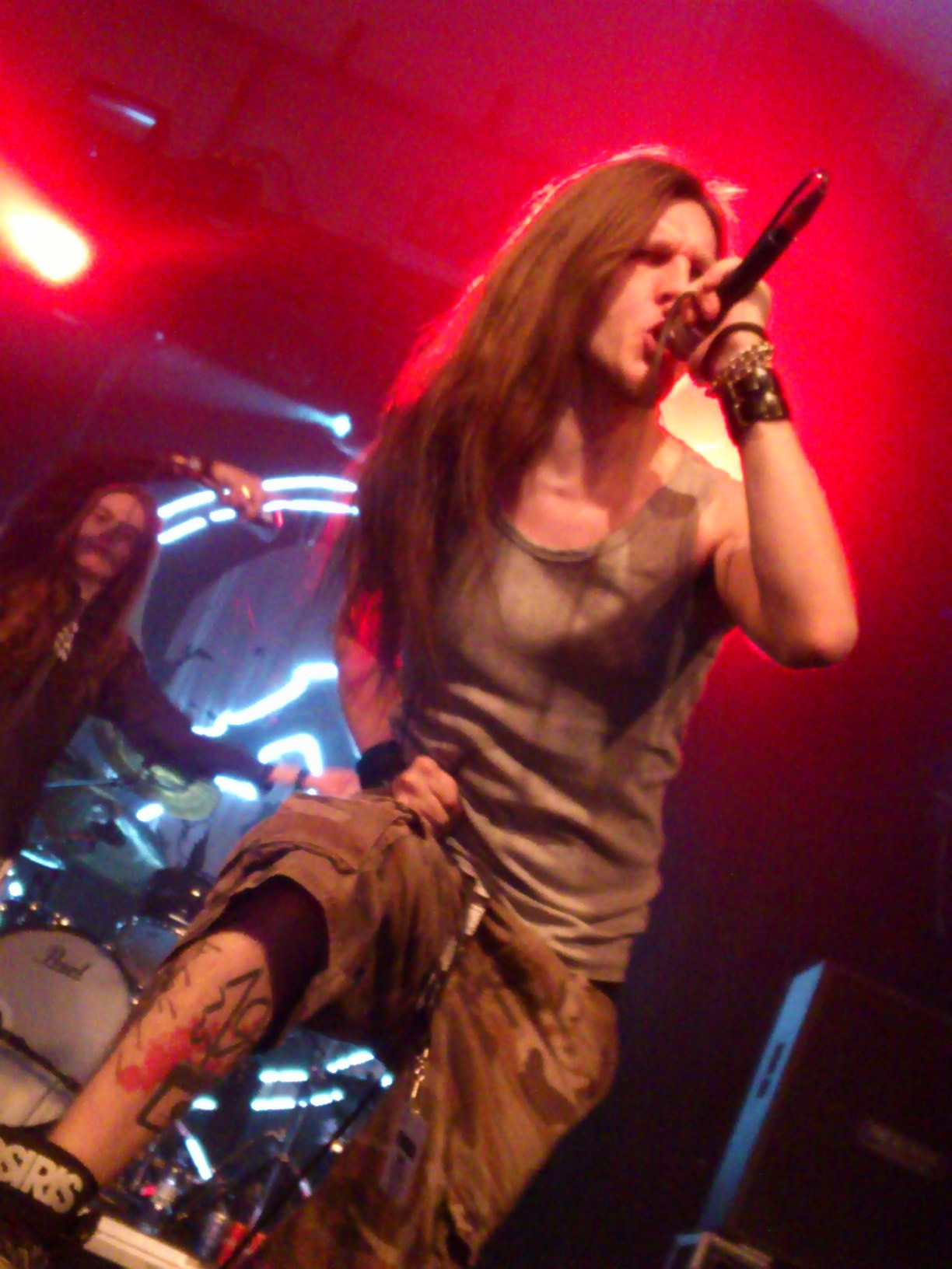 Niko Kalliojärvi at Tuska 29.6 2014 singing w/ Amoral